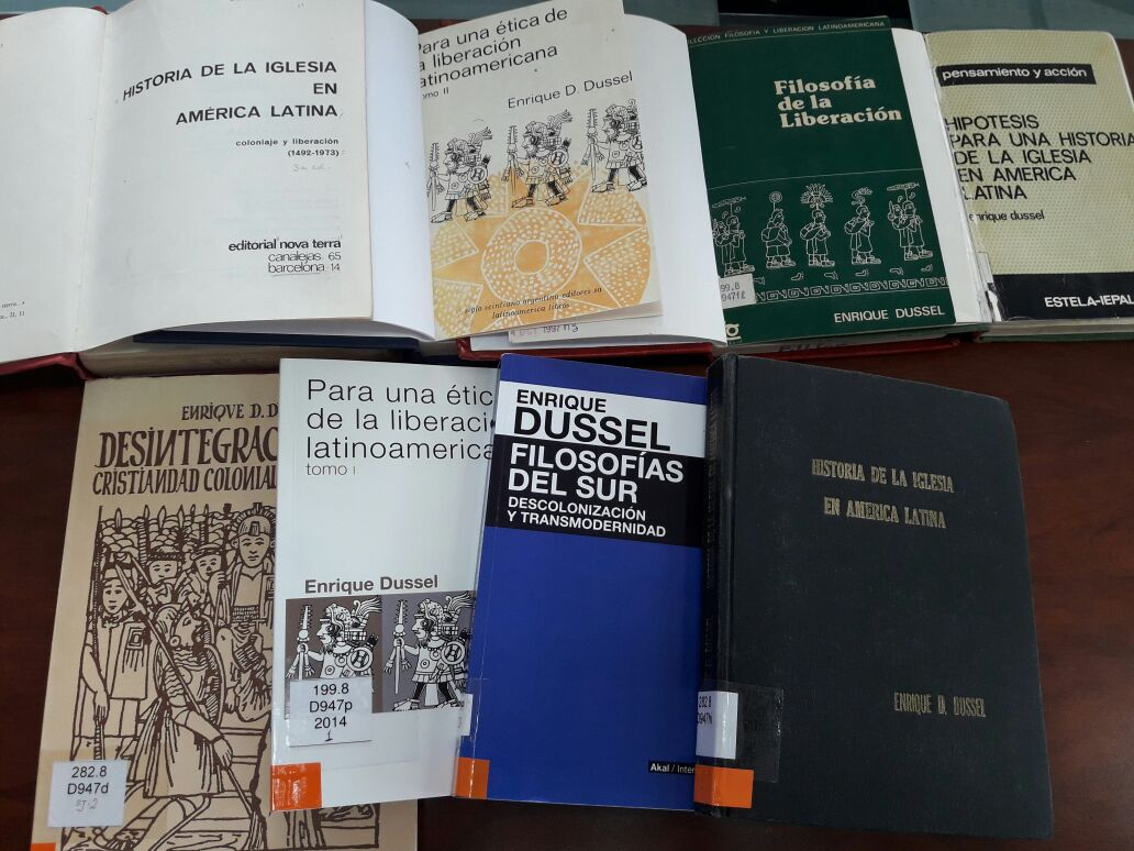 Picture of books in Spanish written by Enrique Dussel